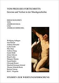 Vom Preis des Fortschritts (2008)